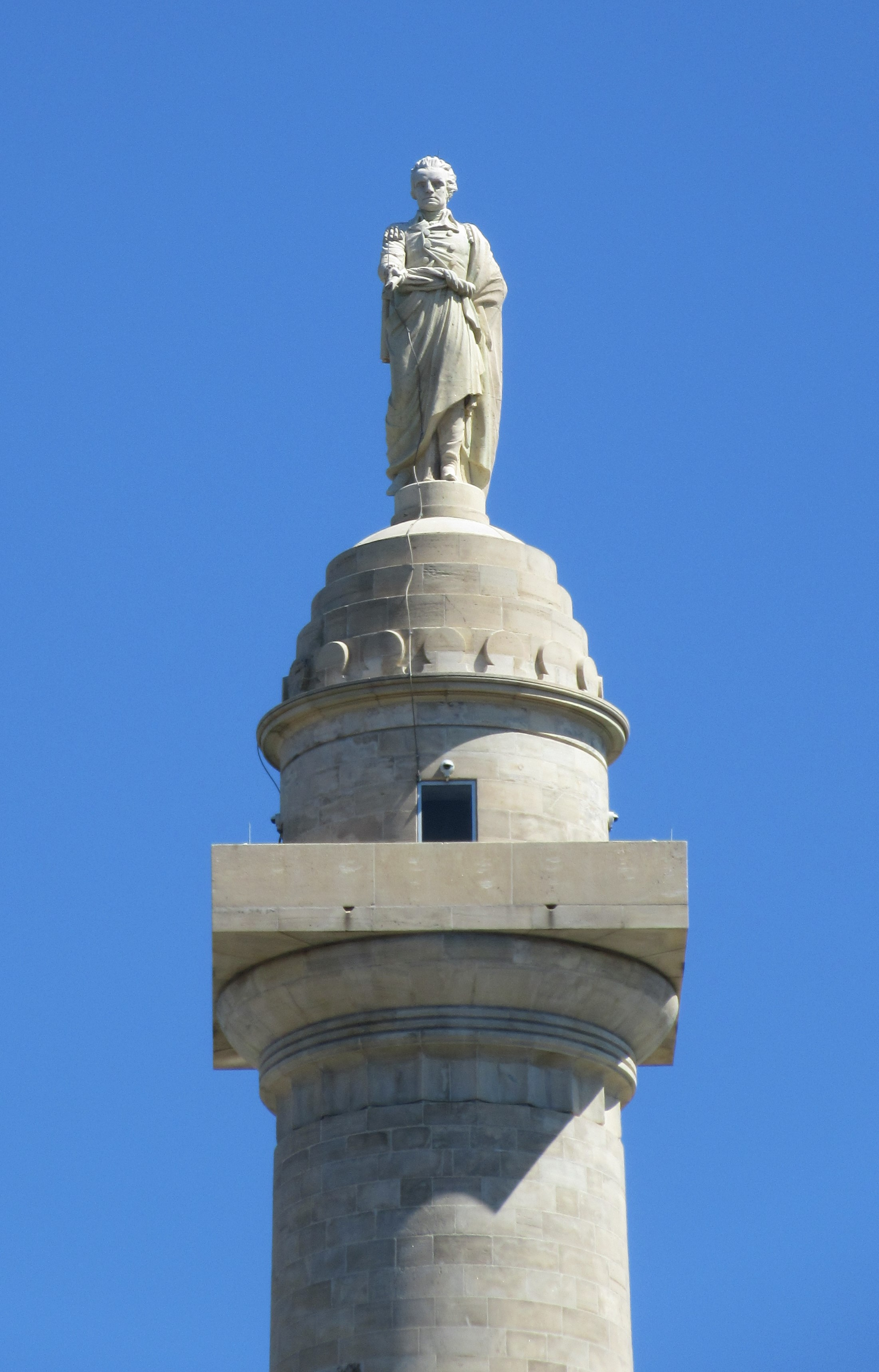 Washington Monument (Baltimore)